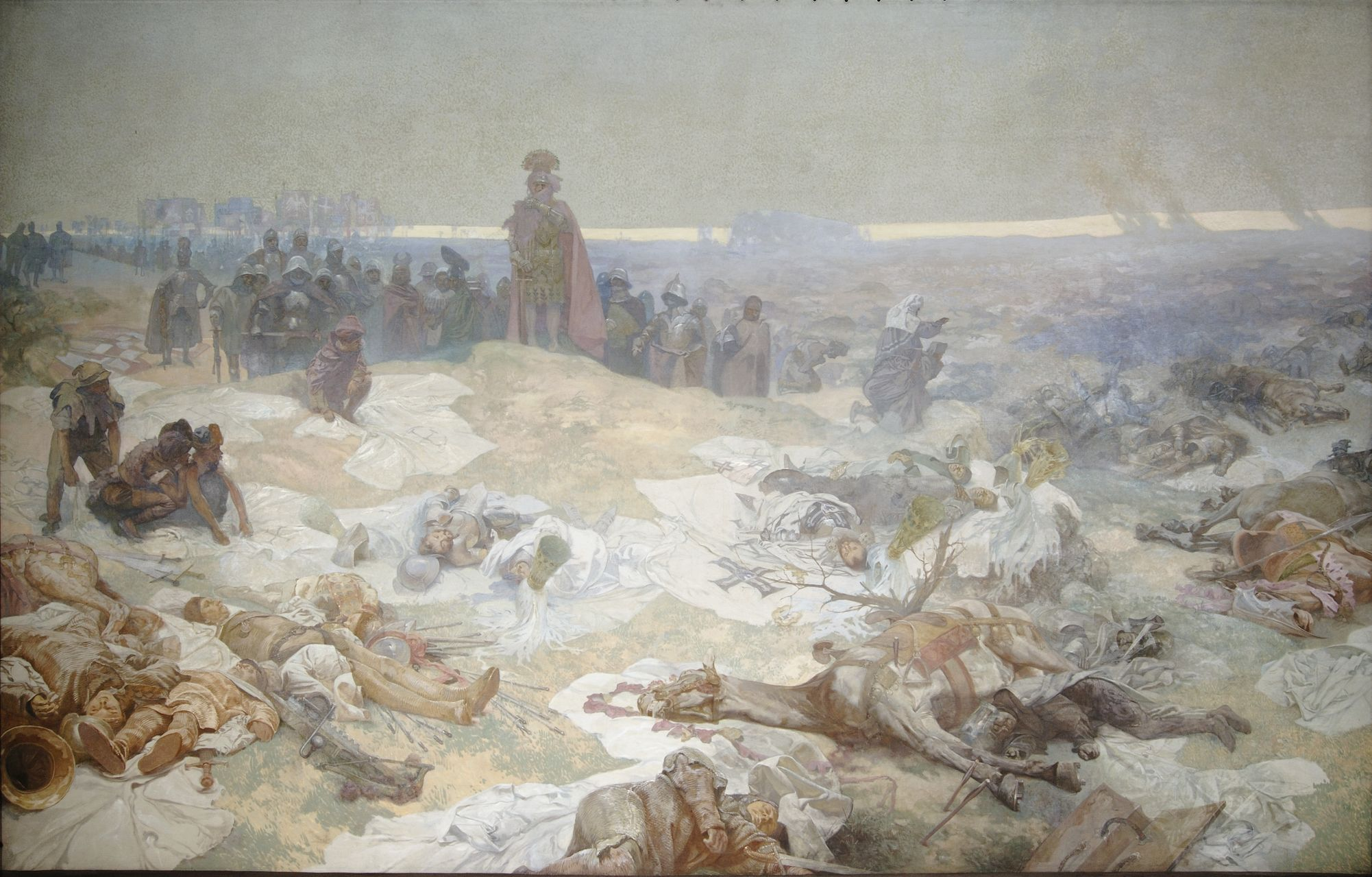 Alphonse Mucha, Slavic Epic - After the Battle of Grunwald: The Solidarity of the Northern Slavs